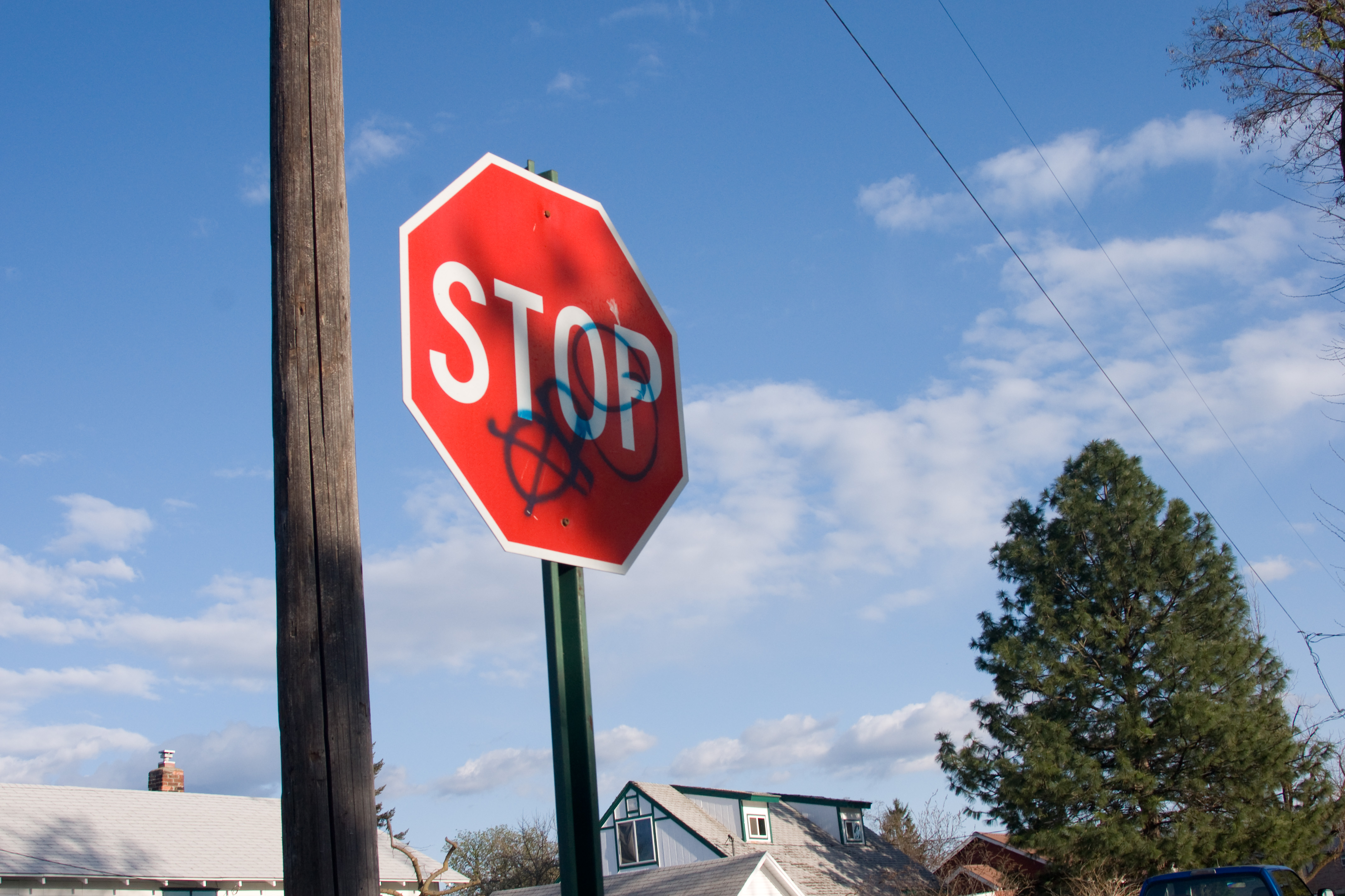 Tag in Spokane, Washington. ಕನ್ನಡ: ವಾಶಿಂಗ್ಟನ್‌ನ ಸ್ಪೋಕನೆಯಲ್ಲಿ ಗ್ಯಾಂಗ್ ಚಿಹ್ನೆಗಳು.